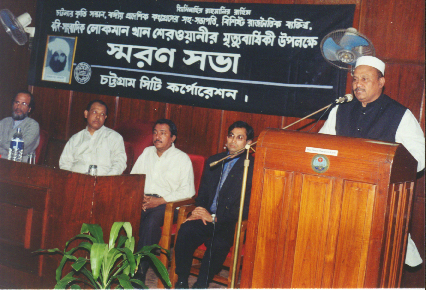 Chittagong Mayor Speaking atThe Sherwani Memrial Meeting